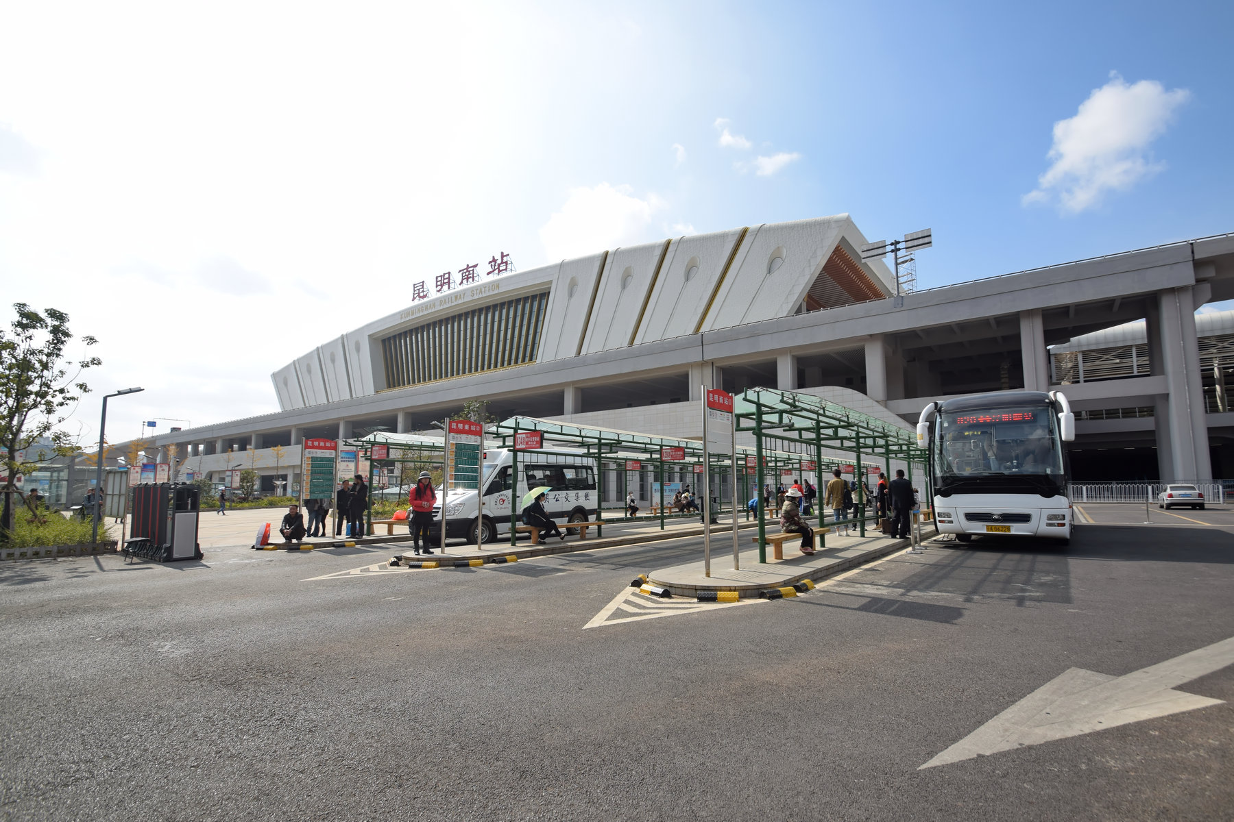 Bus Stop at East Square of Kunming Nan (South) Railway Station